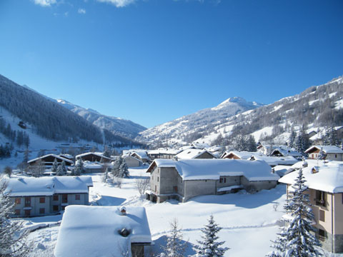 Wiev of Pragelato